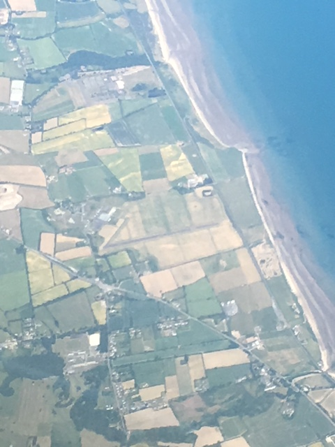 Gormanston Camp from the air